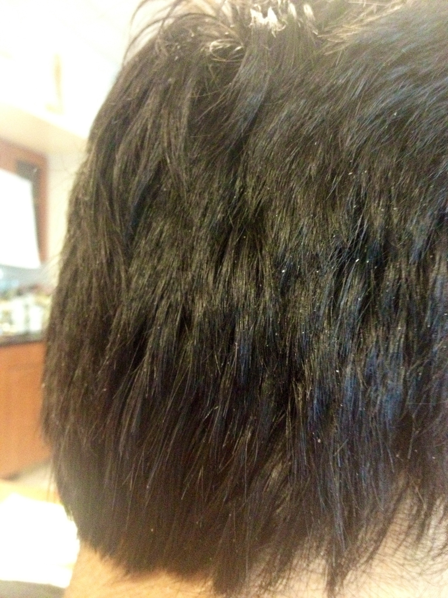 A typical case of severe dandruff and dry scalp